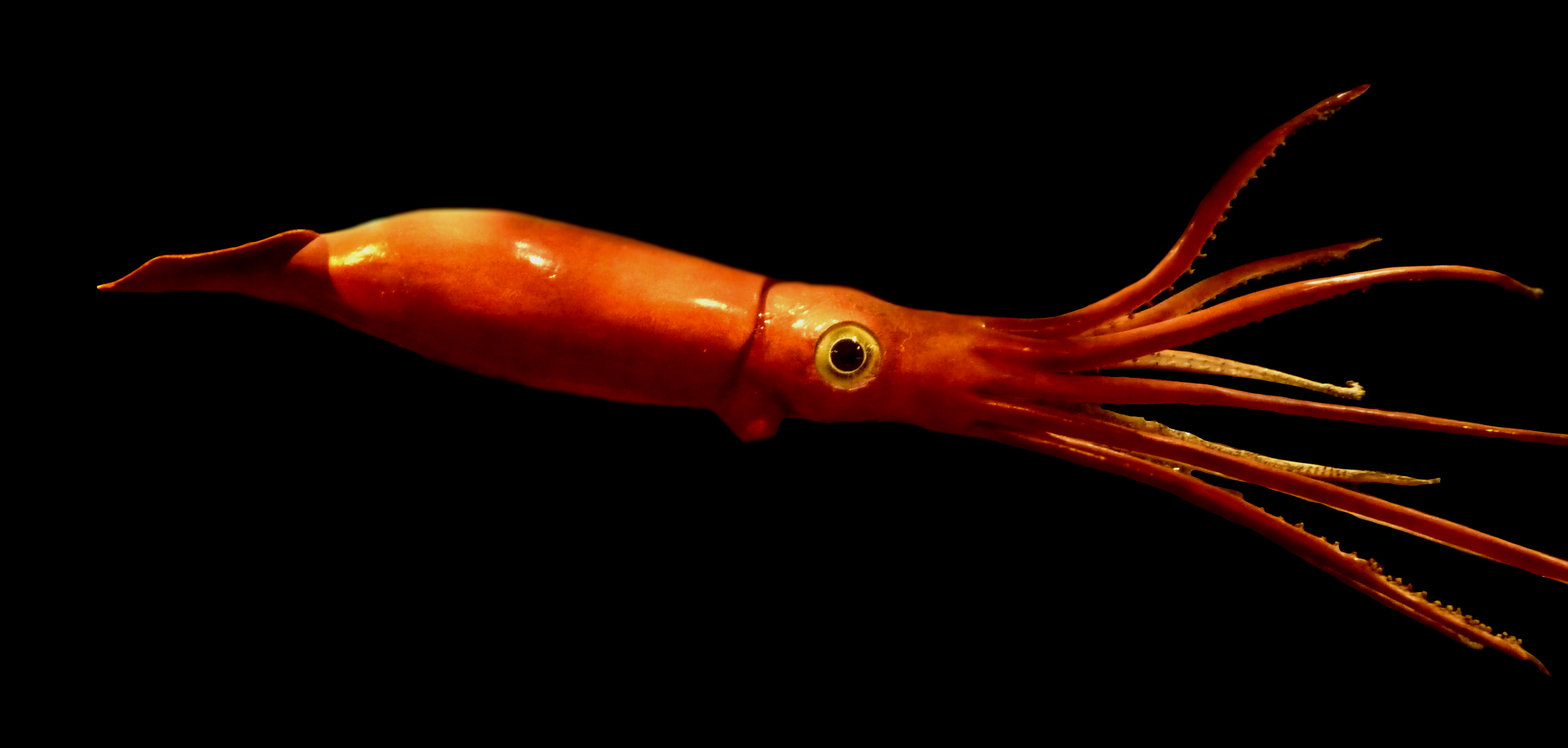 Wheke, an Architeuthis sanctipauli giant squid at Natural History Museum, Paris. It is the first plastified giant squid exposed in a museum. 9 meters long.